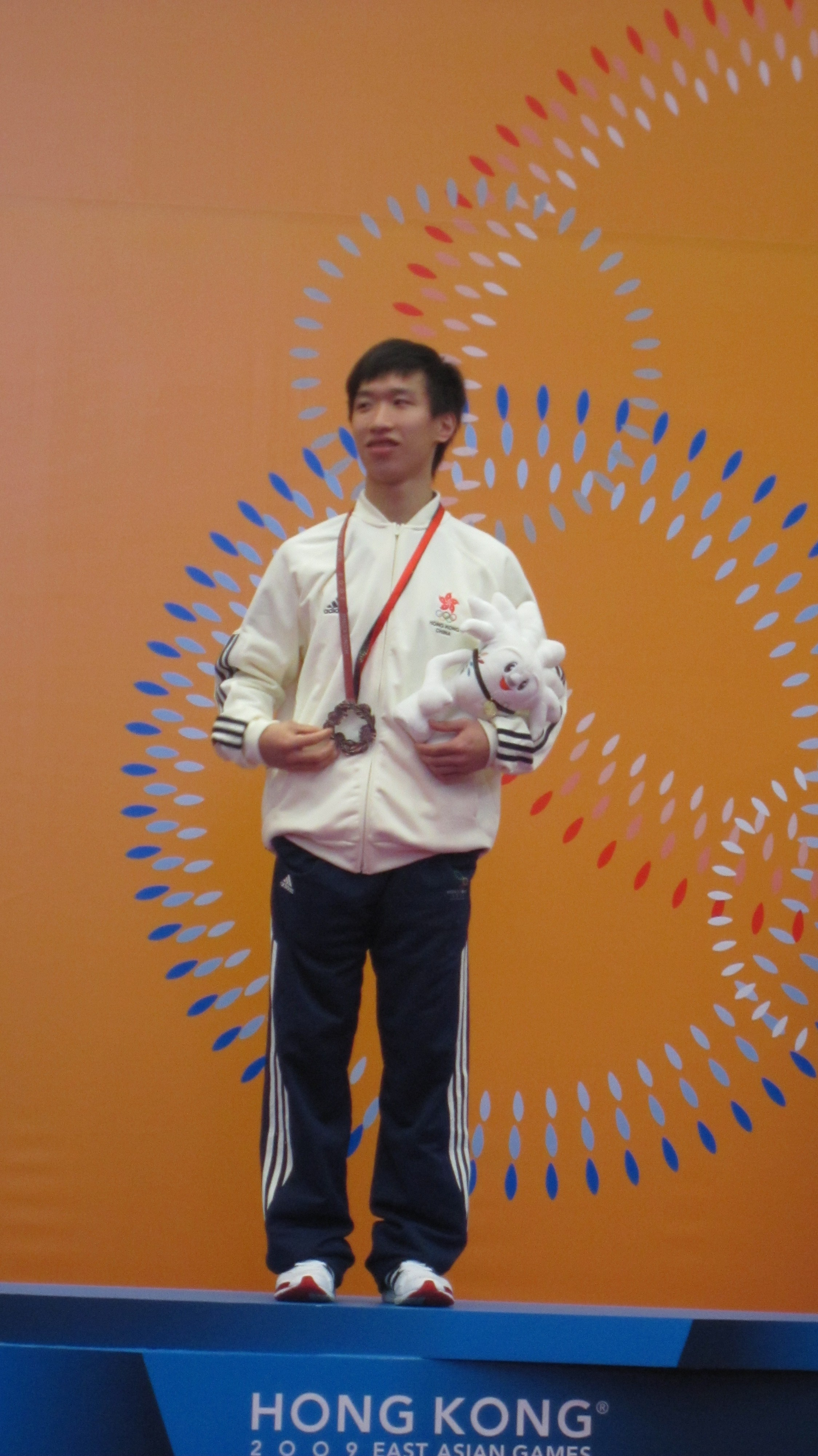 Hong Kong East Asian Games